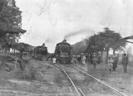 A train in Basílica station, a small branch built by the BA Western Railway that carried pilgrims to Basilica of Our Lady of Luján. The service was closed in 1955 by Ferrocarriles Argentinos.